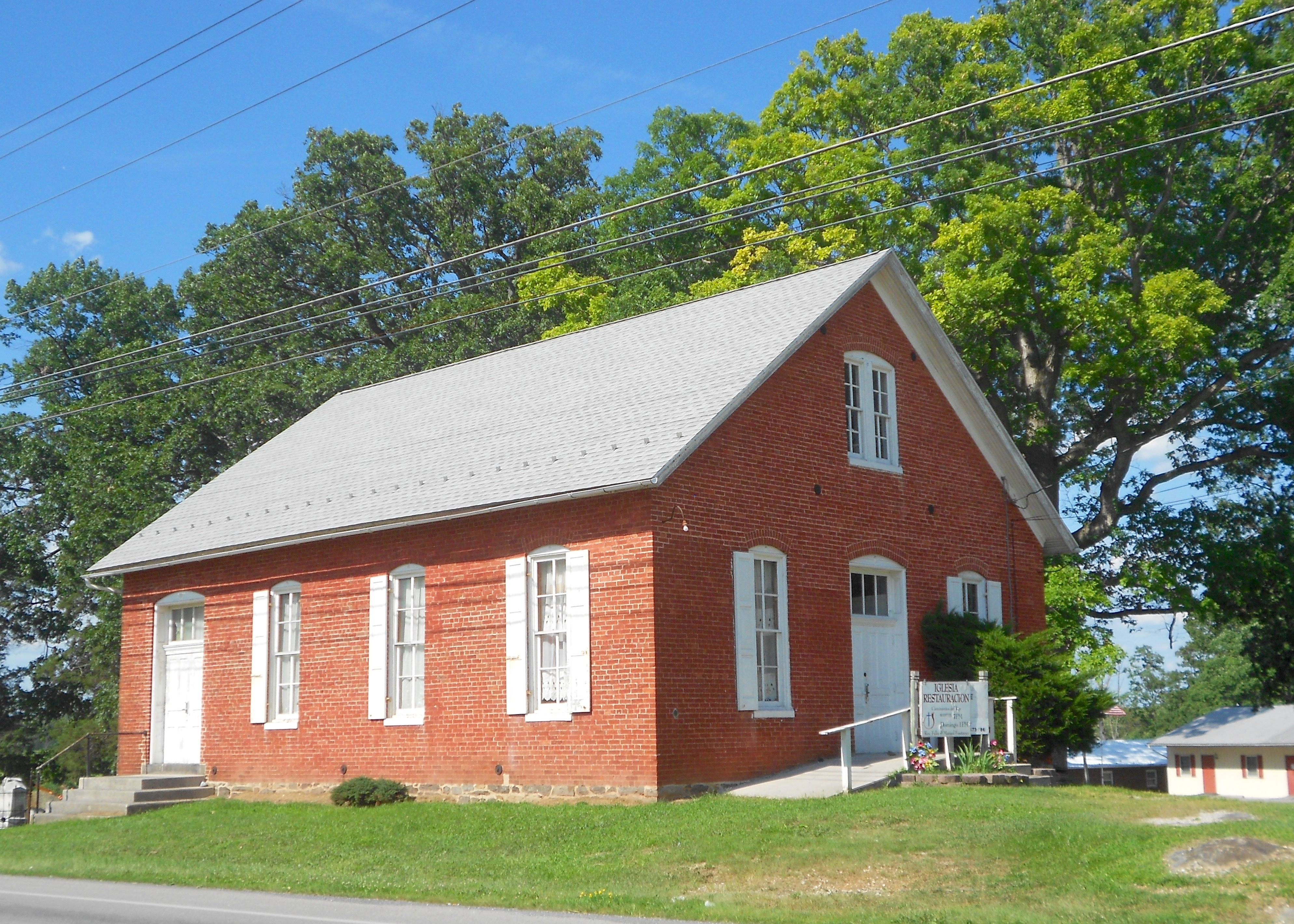 Old church near the township offices in Reading Township, Adams County, Pennsylvania. Now used by a Spanish-speaking congregation.